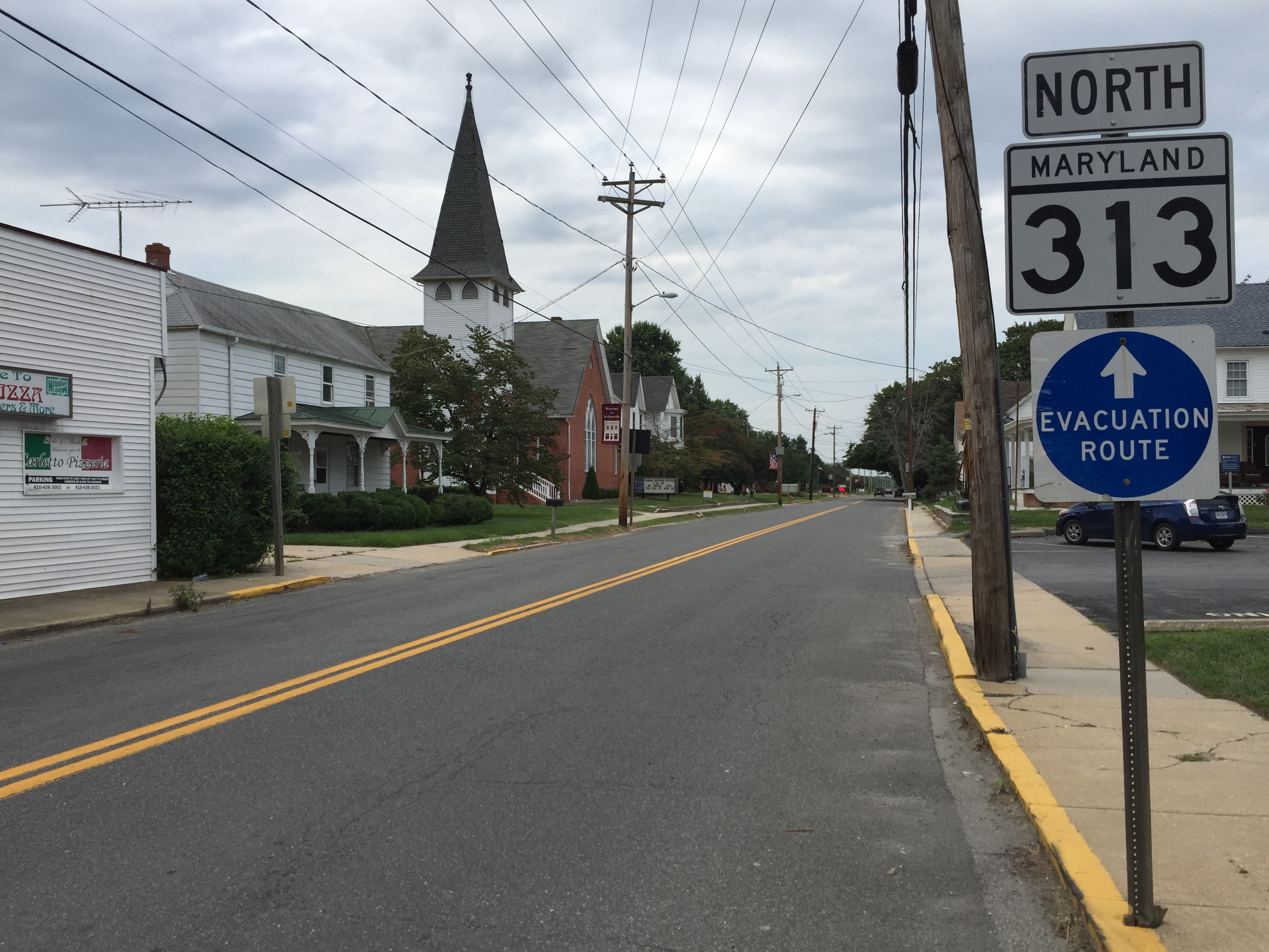 View north along Maryland State Route 313 (Church Street) at Maryland State Route 300 (Main Street) in Sudlersville, Queen Anne's County, Maryland